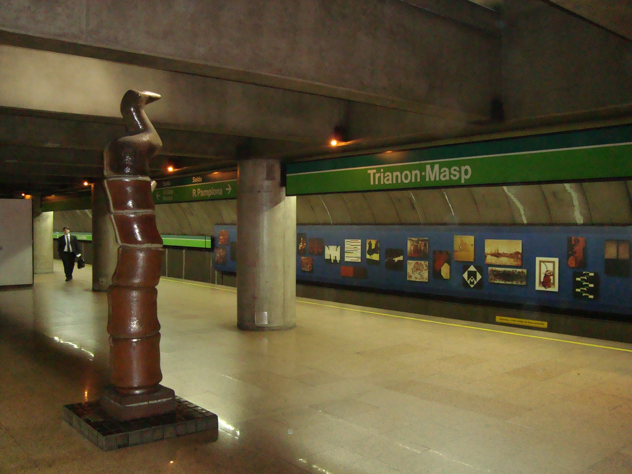 Trianon-Masp Station, São Paulo.